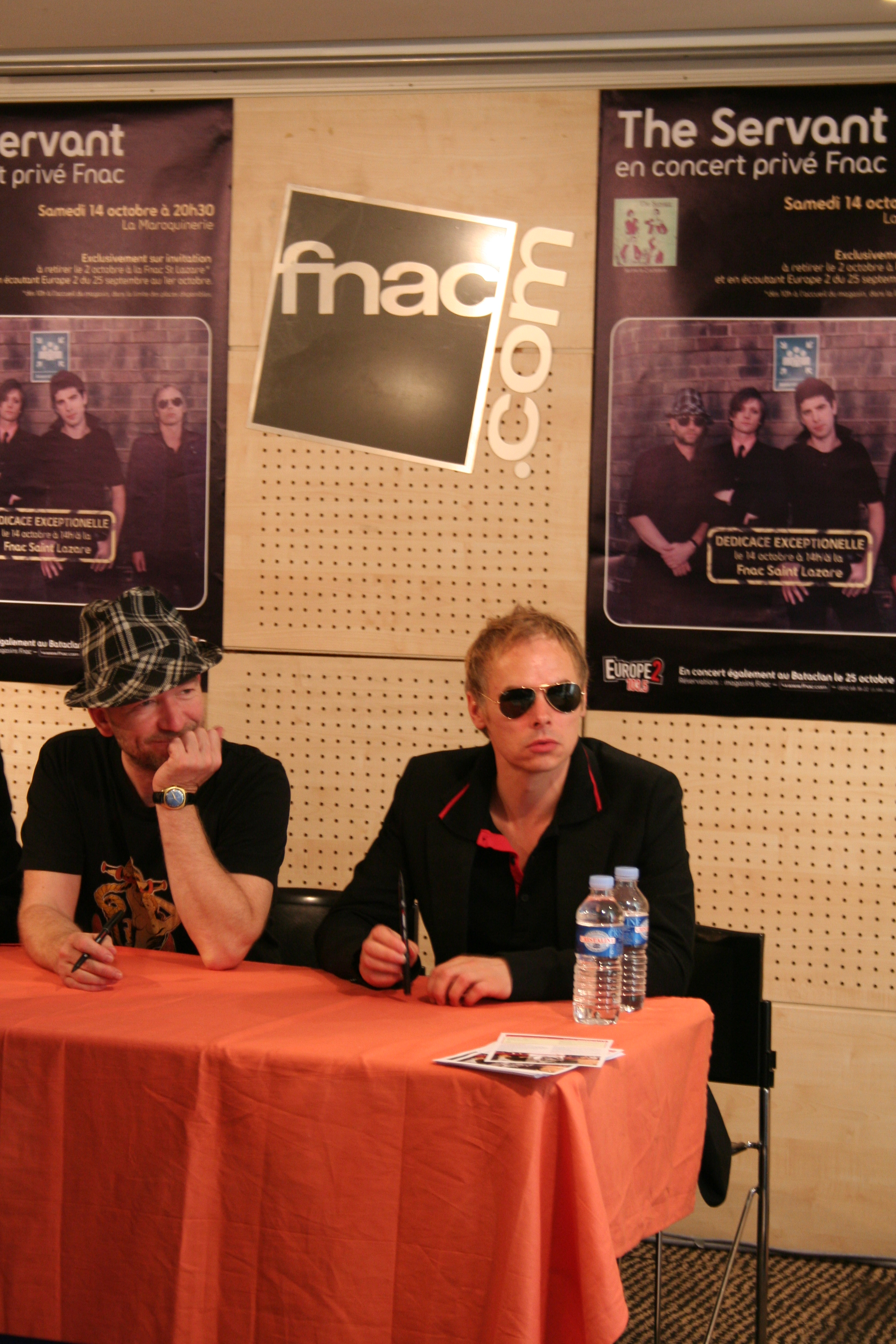 Autograph session with The Servant at Fnac Saint-Lazare (Paris, France).